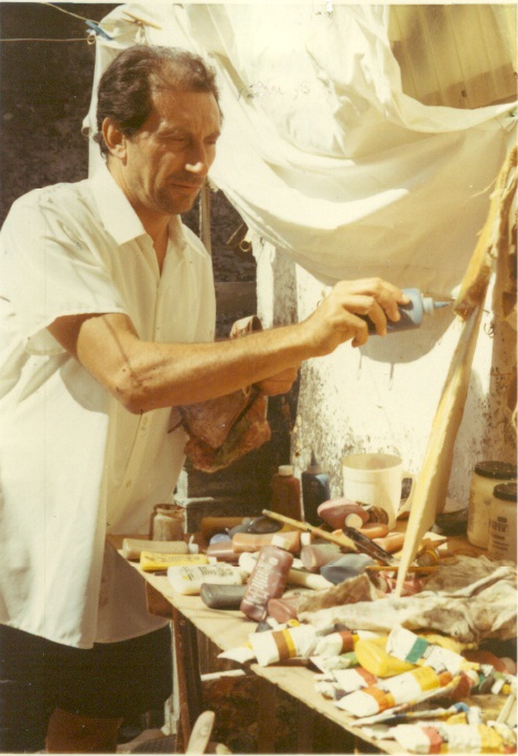 Portrait of Mauro Masi in his art studio in Rome in 1972